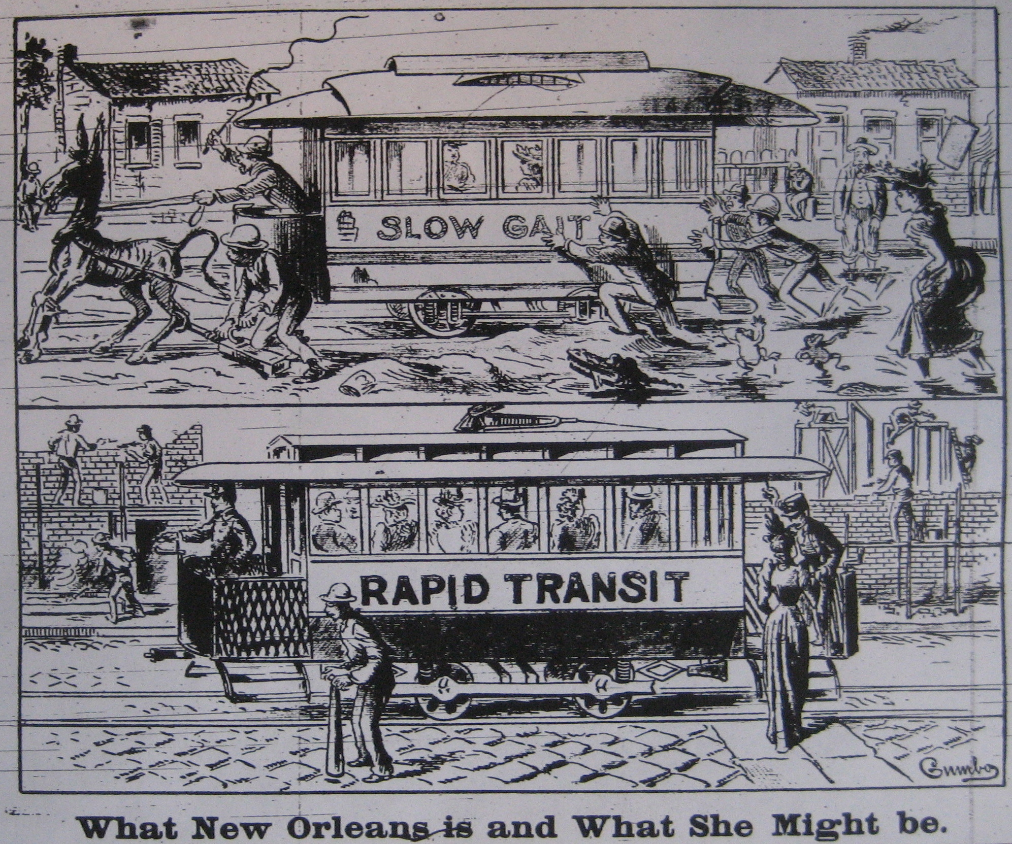 Editorial cartoon in "The Mascot" newspaper, New Orleans, 21 October, 1893. "What New Orleans is and What She Might be". The top cartoon caricatures current conditions with a tram (Johnson Bobtail) drawn by an emaciated mule (only a few of the city's streetcar lines had been electrified at this date), with passengers required to help push. A muddy unpaved street is caricatured as a swamp with frogs and an alligator. The bottom cartoon shows an electric streetcar (Brill single-truck) on a well paved street; in the background new brick buildings are under construction.